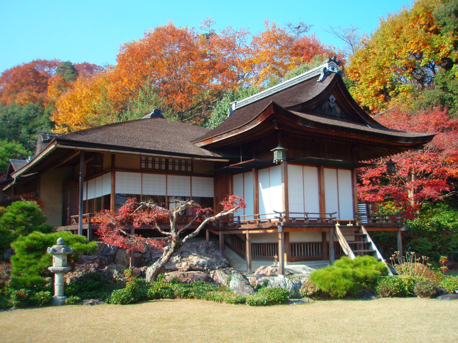 Ōkouchi sansou of autumn (Japanese garden in Kyoto, Japan)